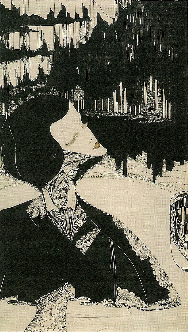 Inleiding tot Extaze